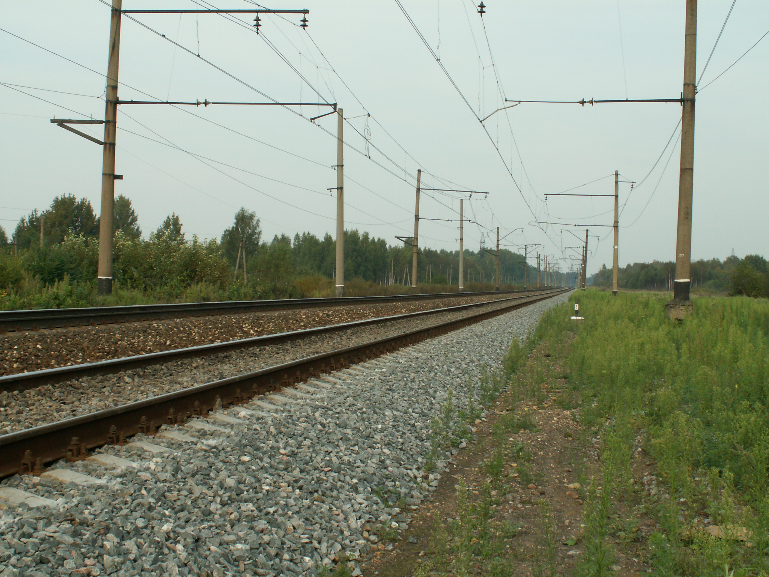 Place where the Khozhayevo platform was (in: Yaroslavl, Russia). See also Image:Xozhajevo-002.jpg.